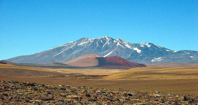 Nacimientos del Cazadero vulcano